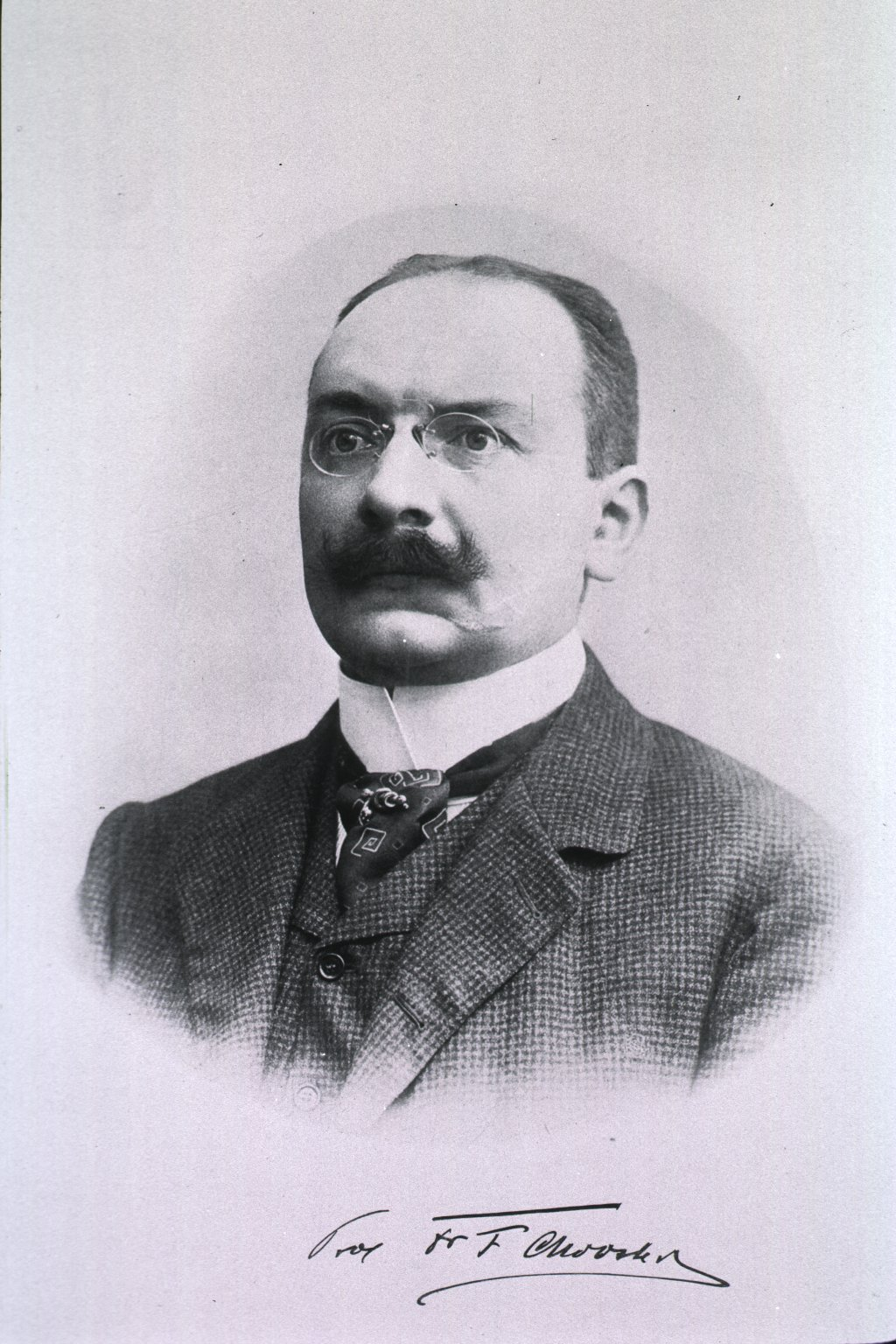 Franz Chvostek